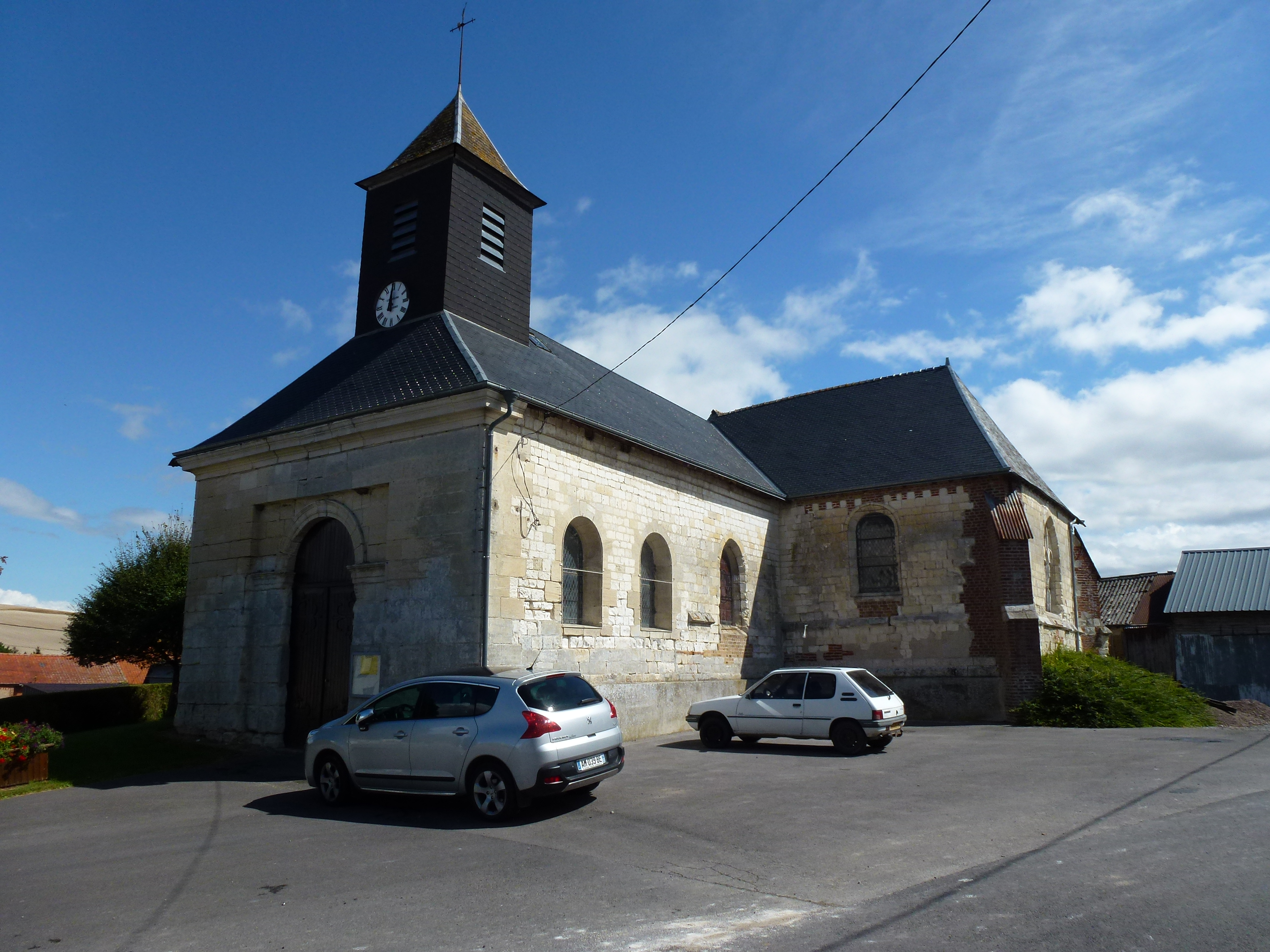 Son (Ardennes) église